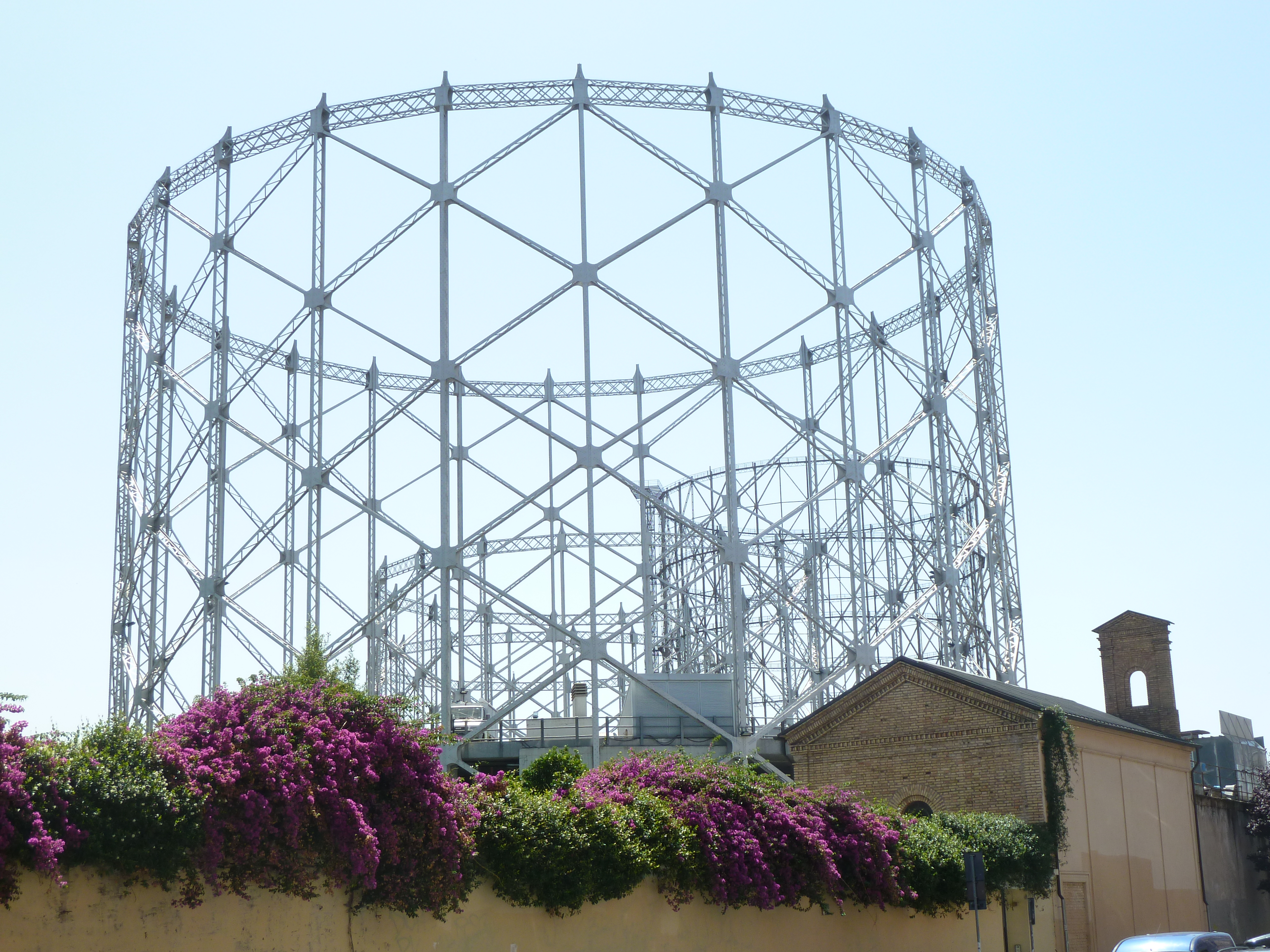 Gazometro via Ostiense, Rome, Italy 2014